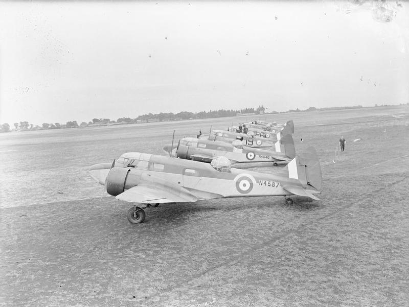 Aircraft of the Royal Air Force 1939-1945- Airspeed As 10 Oxford. Oxford Mark Is of No. 14 Service Flying Training School, lined up at Cranfield, Bedfordshire.